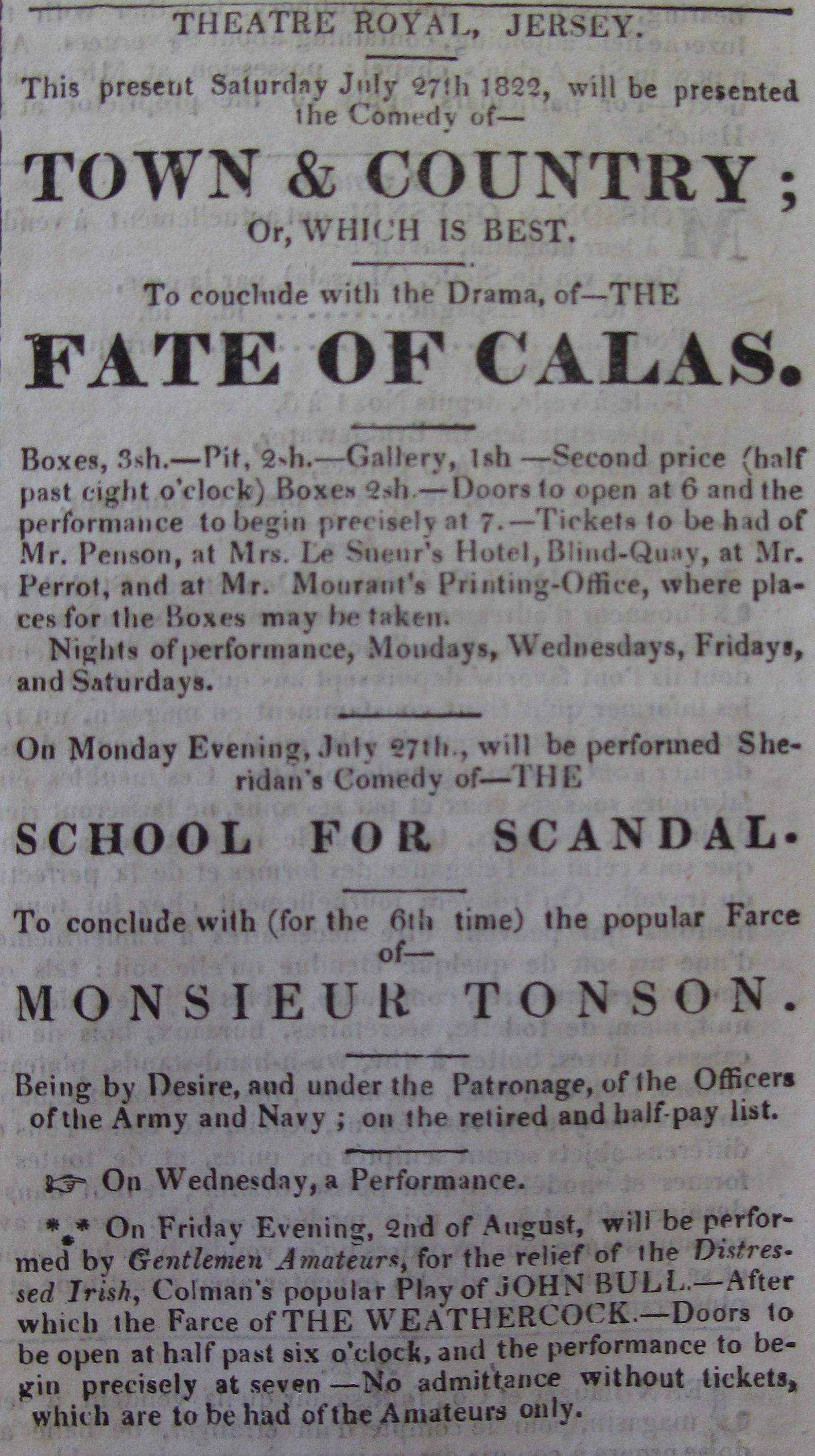 Advertisement for the programme at the Theatre Royal, Jersey: 27 July 1822 - Fate of Calas; School for Scandal